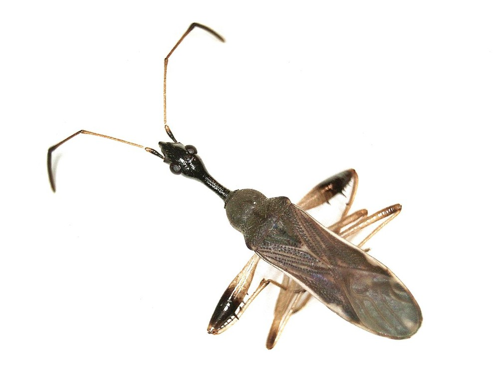 Myodocha serripes (Rhyparochromidae) - (imago), Cape Cod (MA), United States